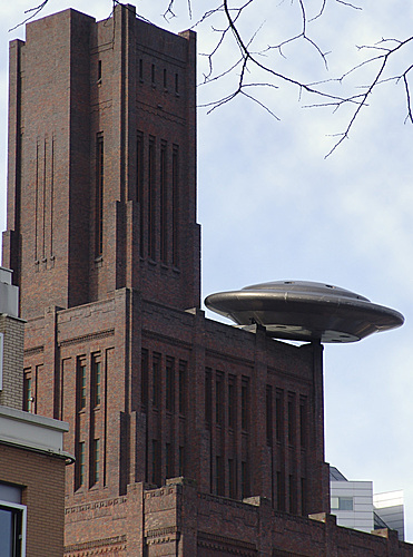 Sculpture Zover (1999) by Marc Ruygrok, De Inktpot Moreelsepark 1, Utrecht/The Netherlands